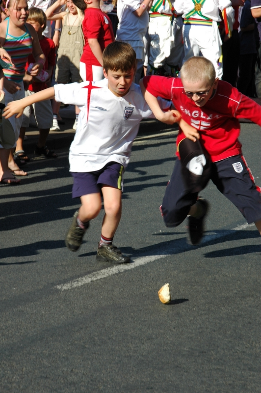 Abingdon Bun Throwing, by myself.